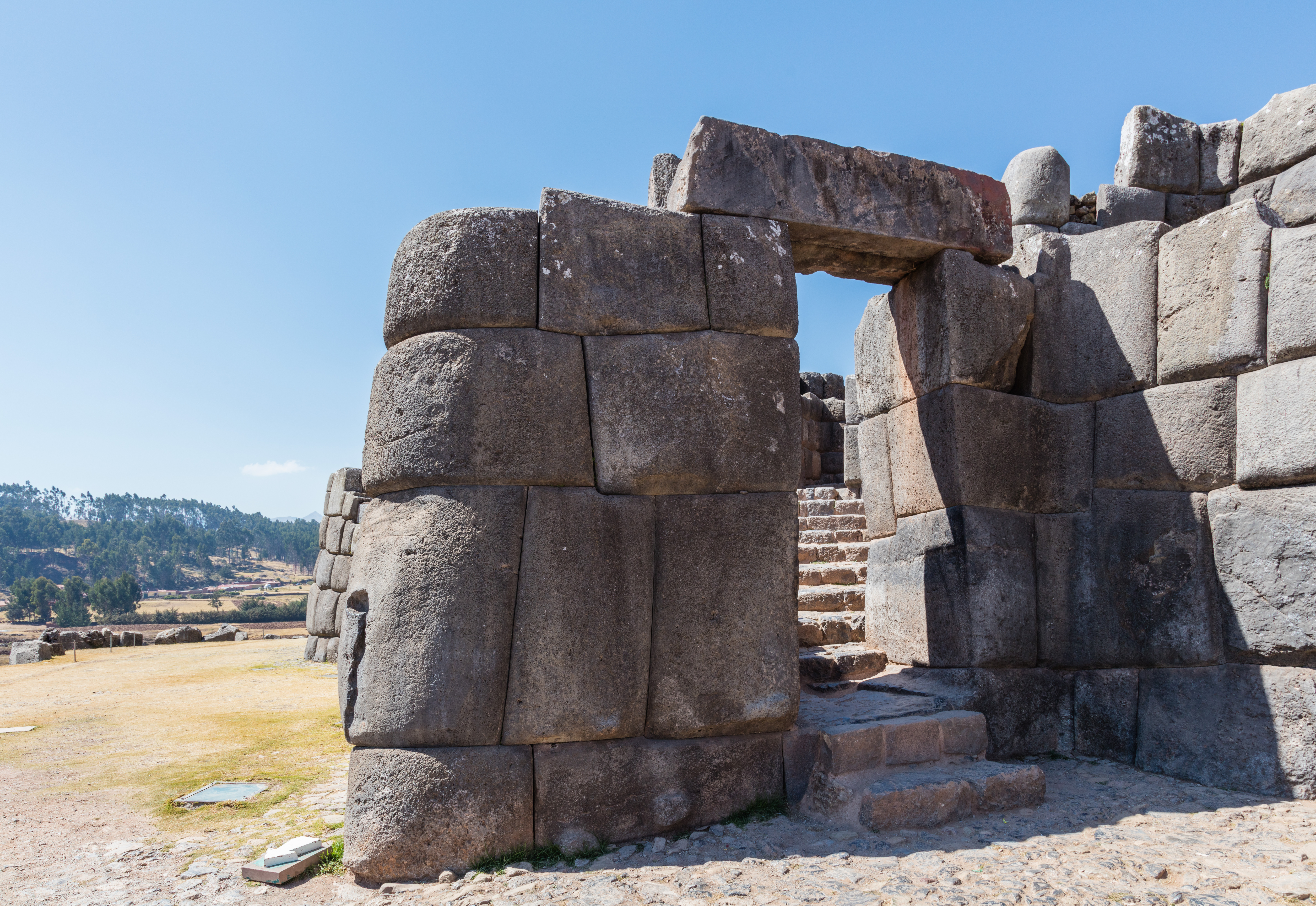 Sacsayhuamán, Cusco, Peru